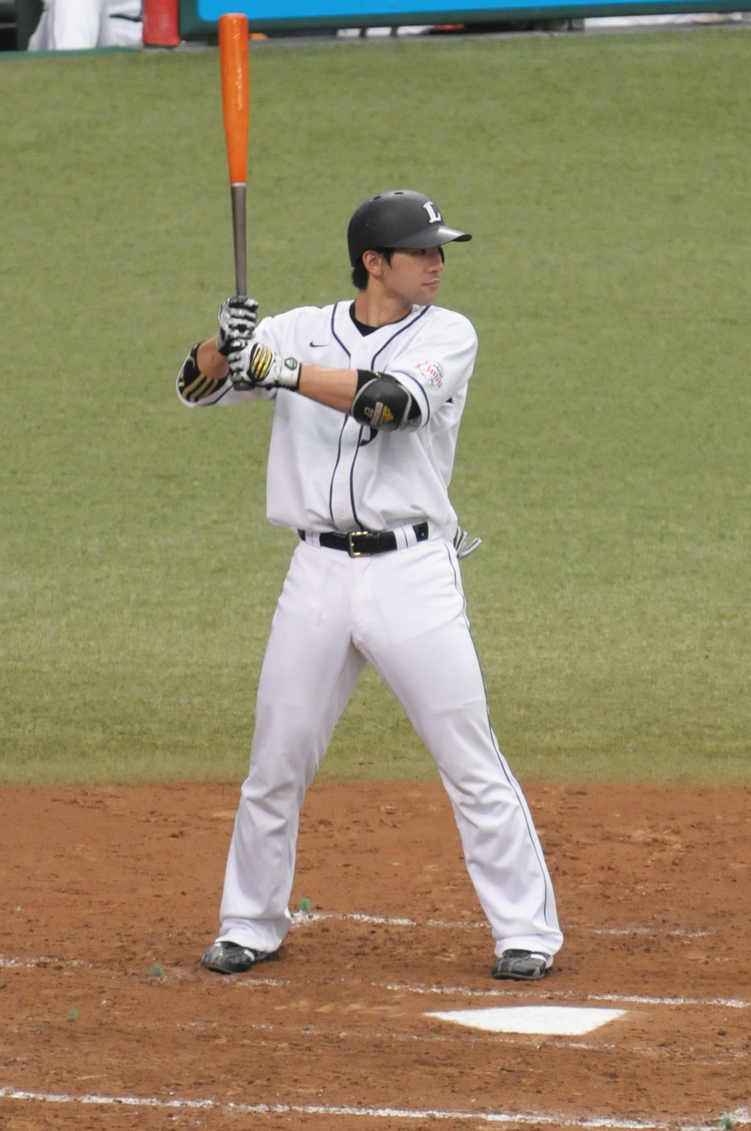 Ginjiro Sumitani, catcher of the Saitama Seibu Lions, at Seibu Dome.